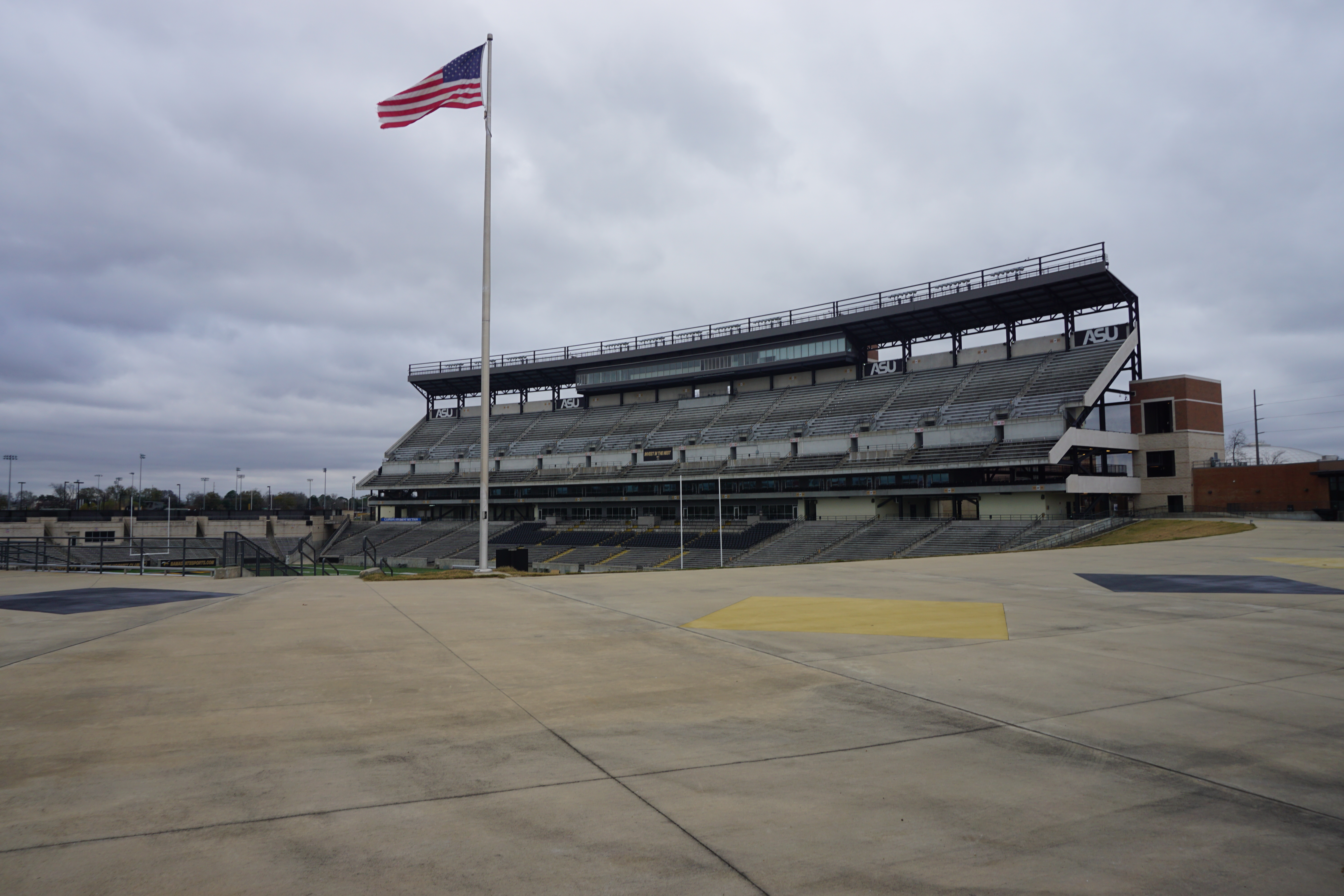 The New ASU Stadium on the campus of Alabama State University in Montgomery, Alabama (United States).